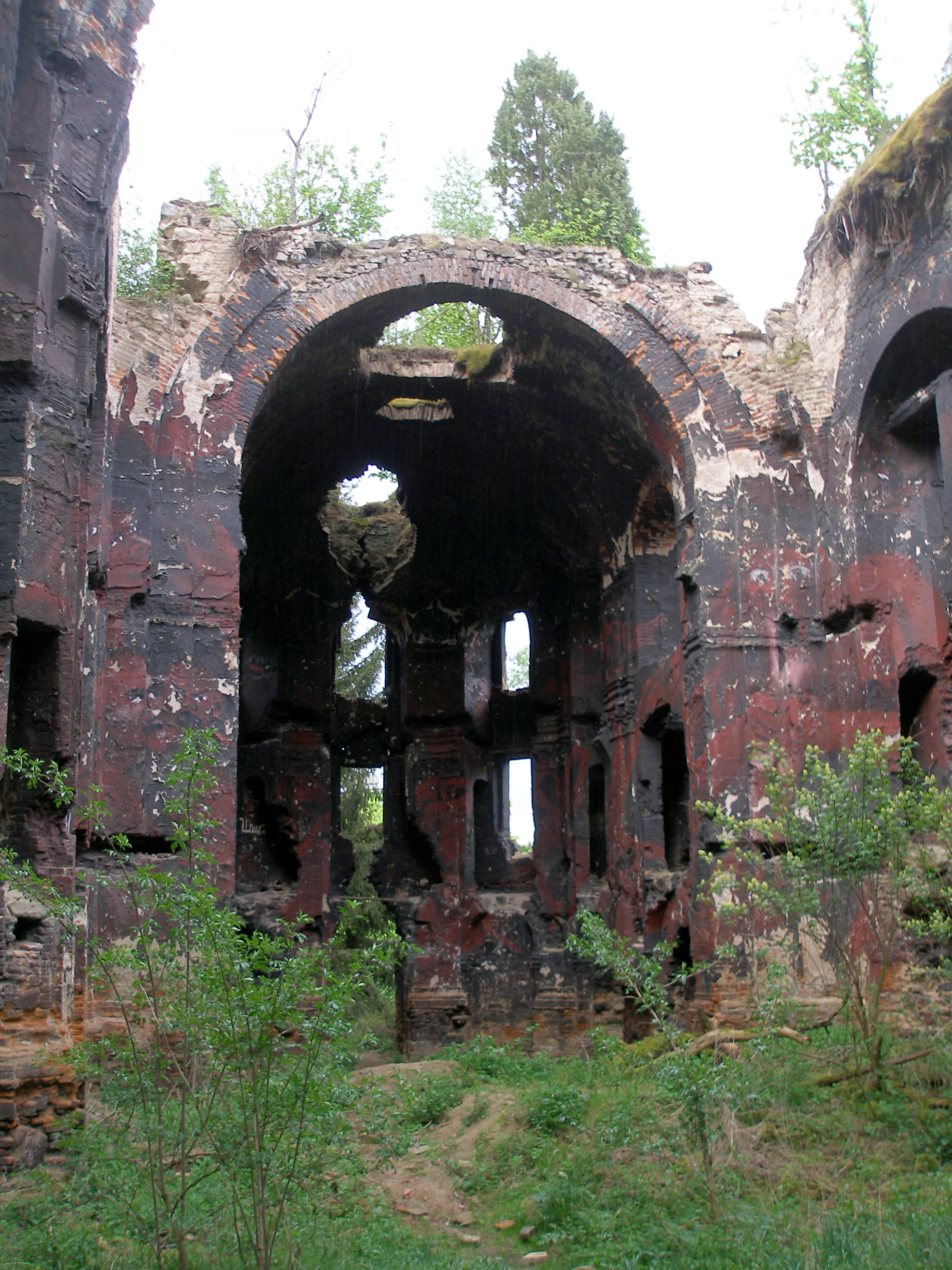 Svatý Jan (Saint John) by Kočov - the interior of the church